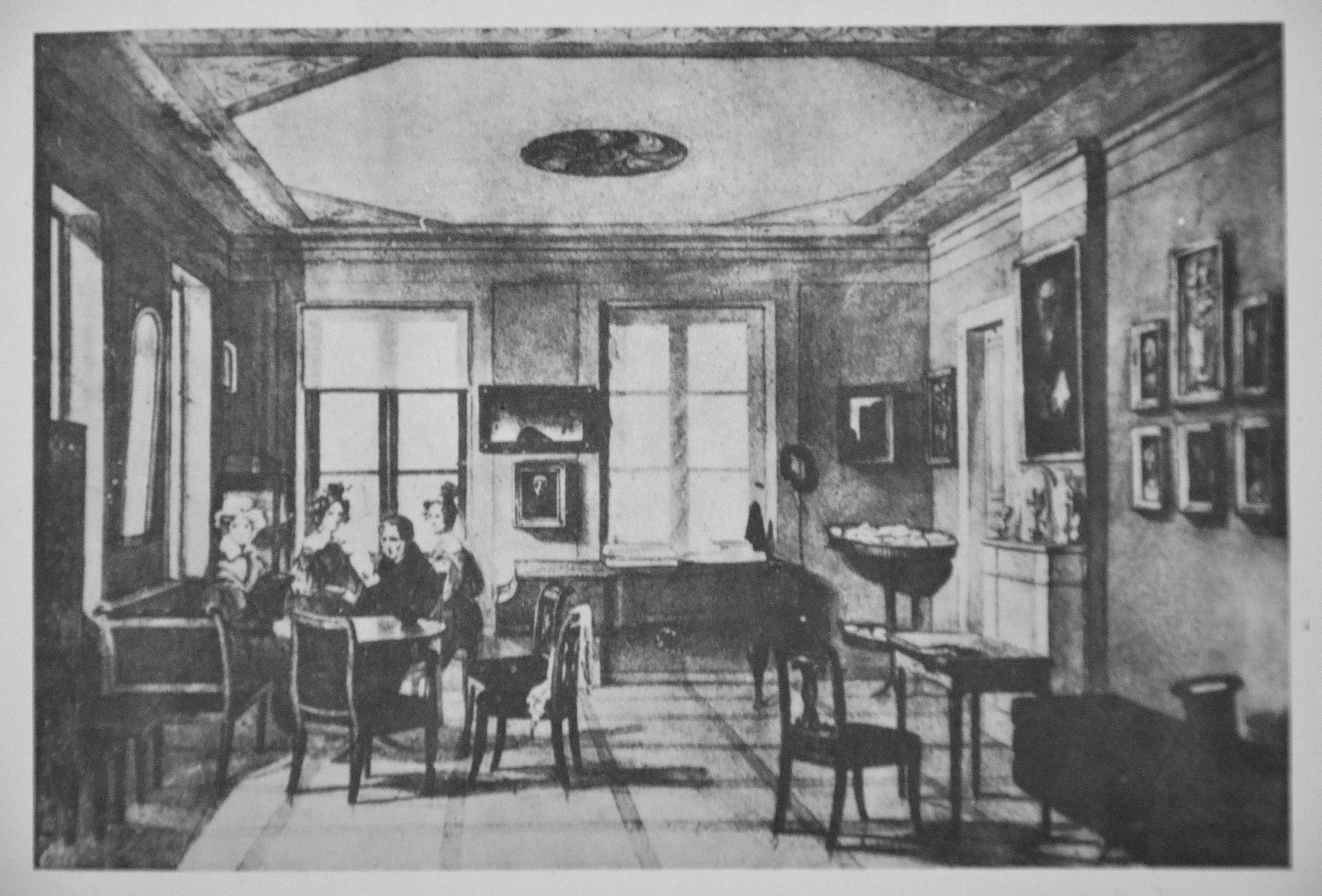 A room in the flat of Chopin family in Krakowskie Przedmieście Street. A drawing by Antoni Kolberg (1832). Lost with the rest of the art collection of Laura Ciechomska in Warsaw in 1939 (Leopold Binental CHOPIN, Paris1934; pl. XVI)